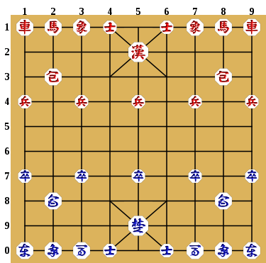 janggi set